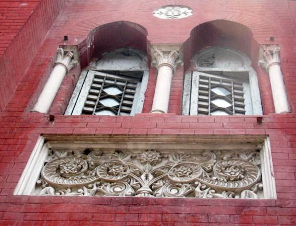 exterior